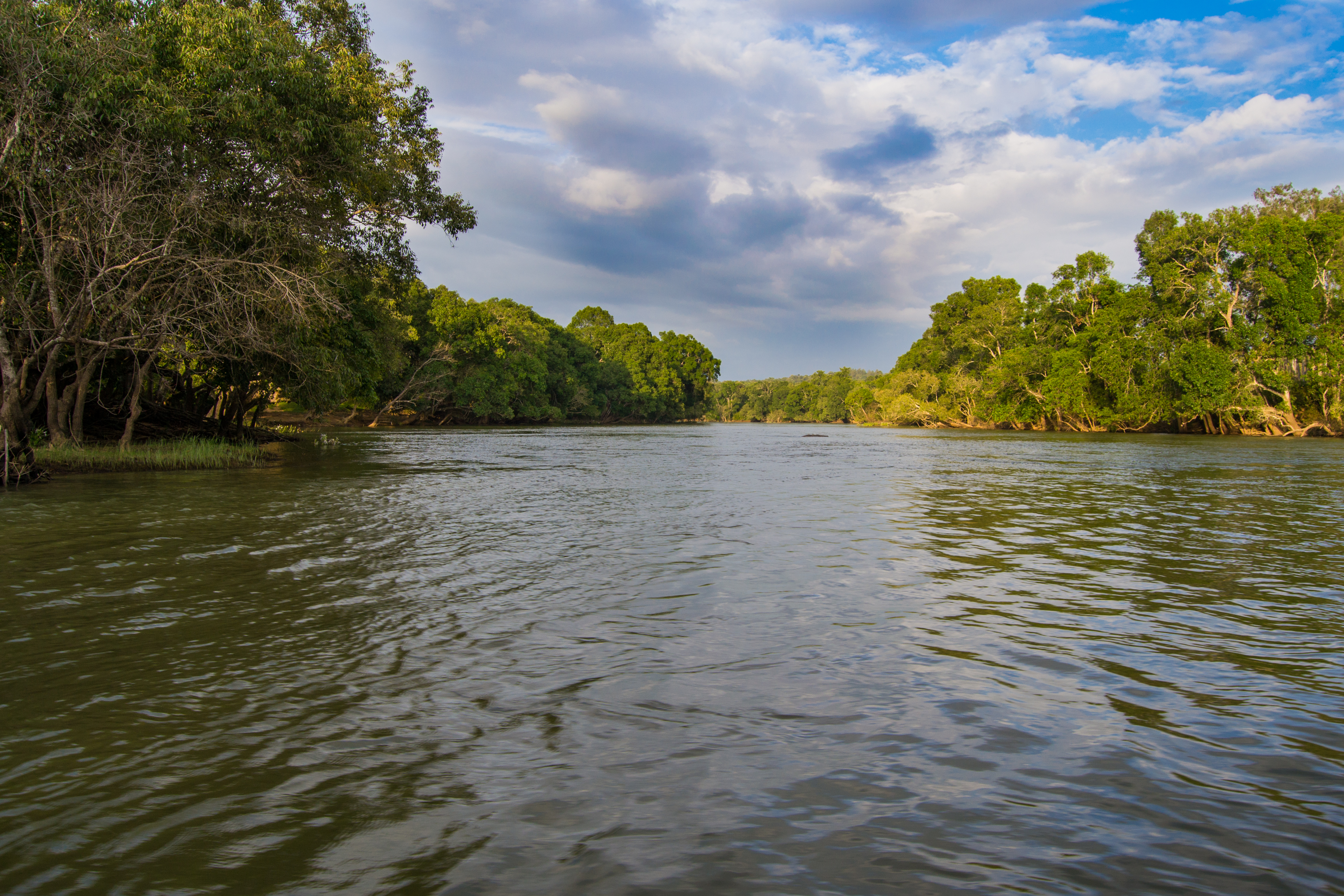 The river Kaveri flowing at Dubare forest in Madikeri, Karnataka